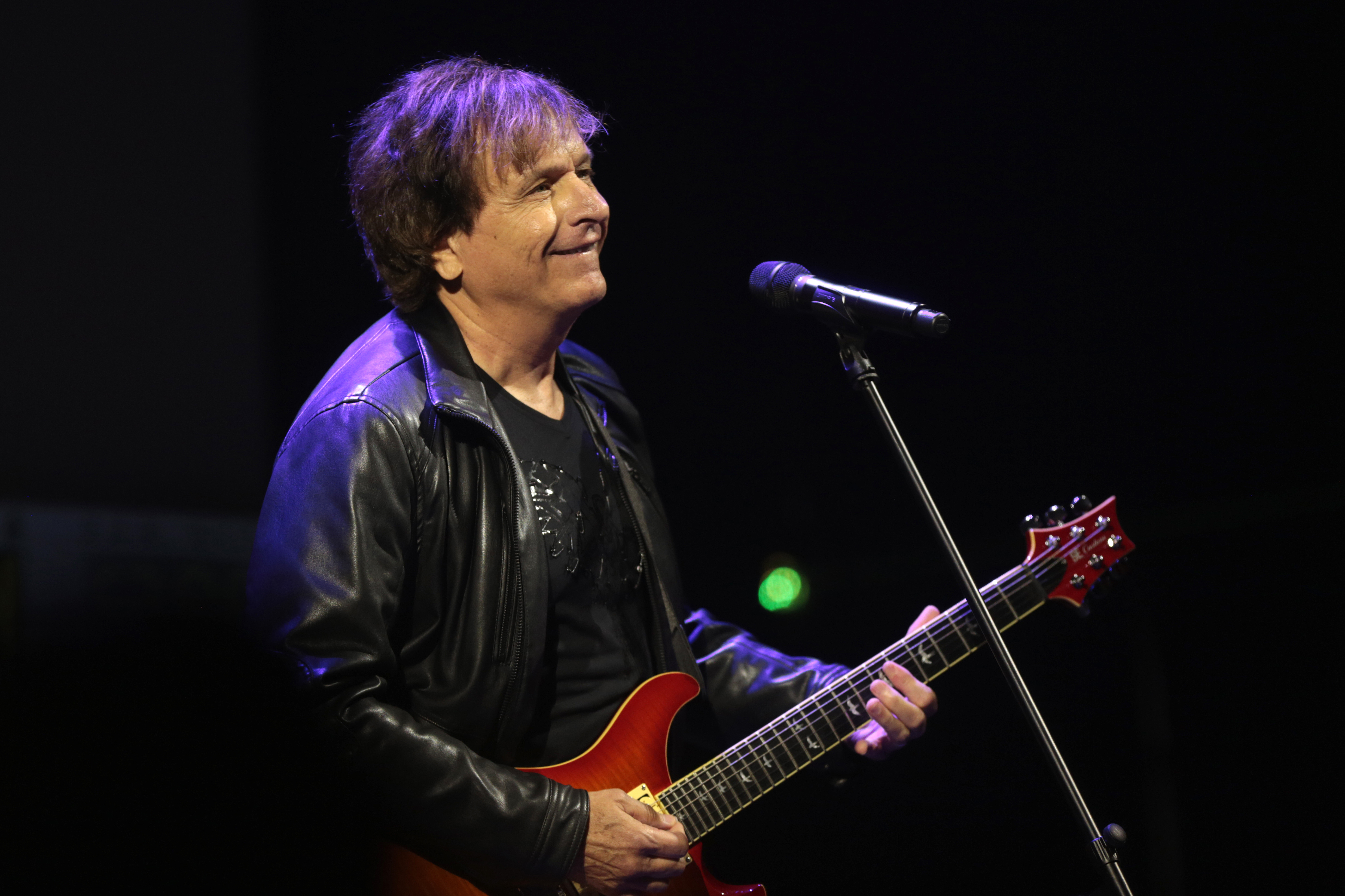 Stan Bush performing at the 2018 San Diego Comic Con International, for "Bumblebee", at the San Diego Convention Center in San Diego, California.